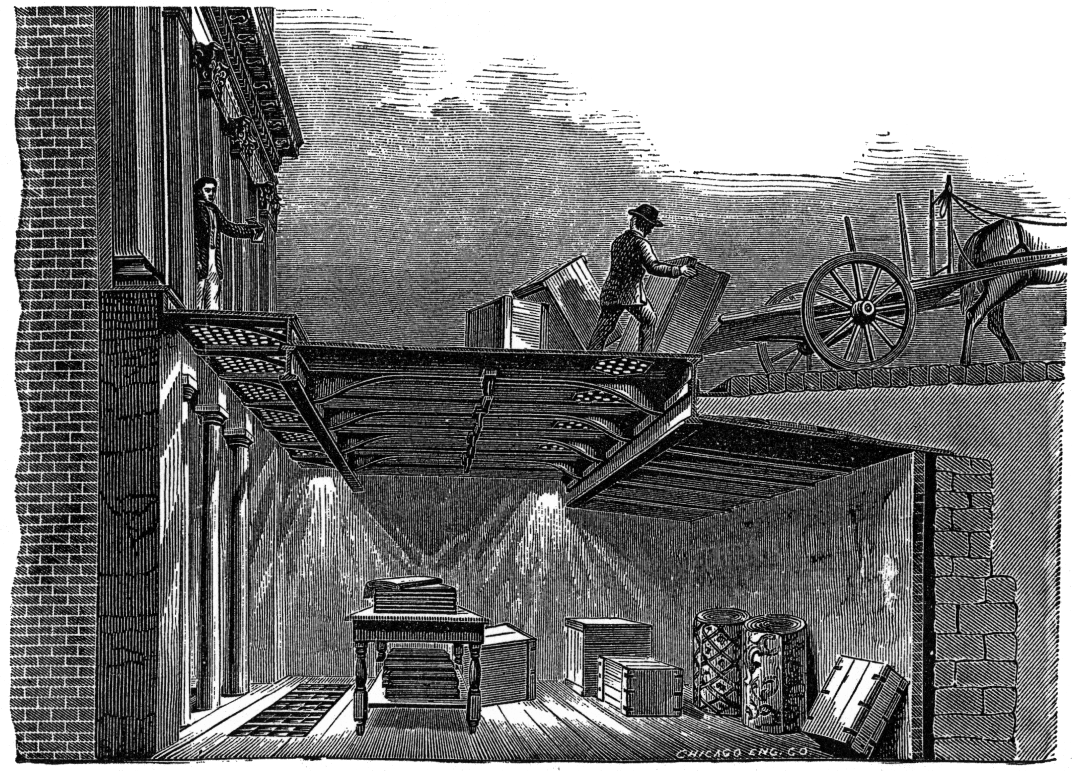 Hyatt patent basement extension vault lights